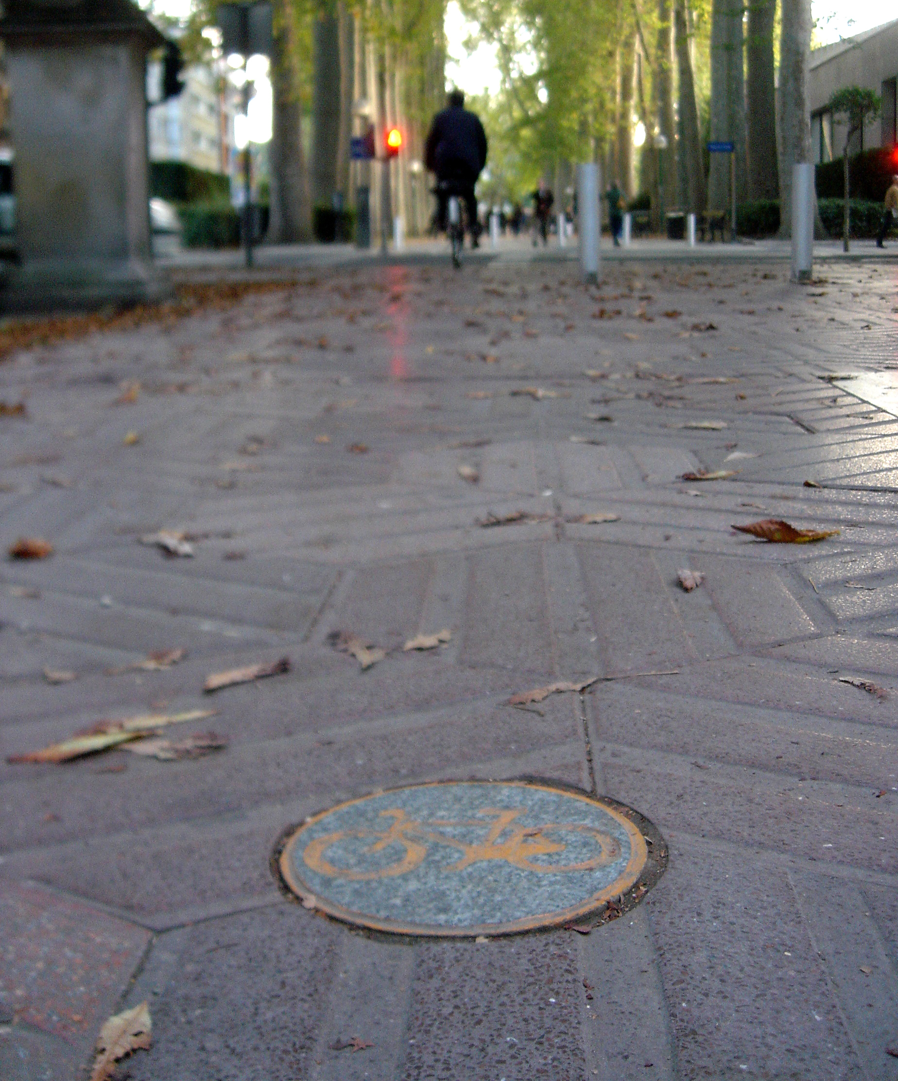 Bikeway in the Florida park, Vitoria-Gasteiz (Araba, Basque Country, Spain)